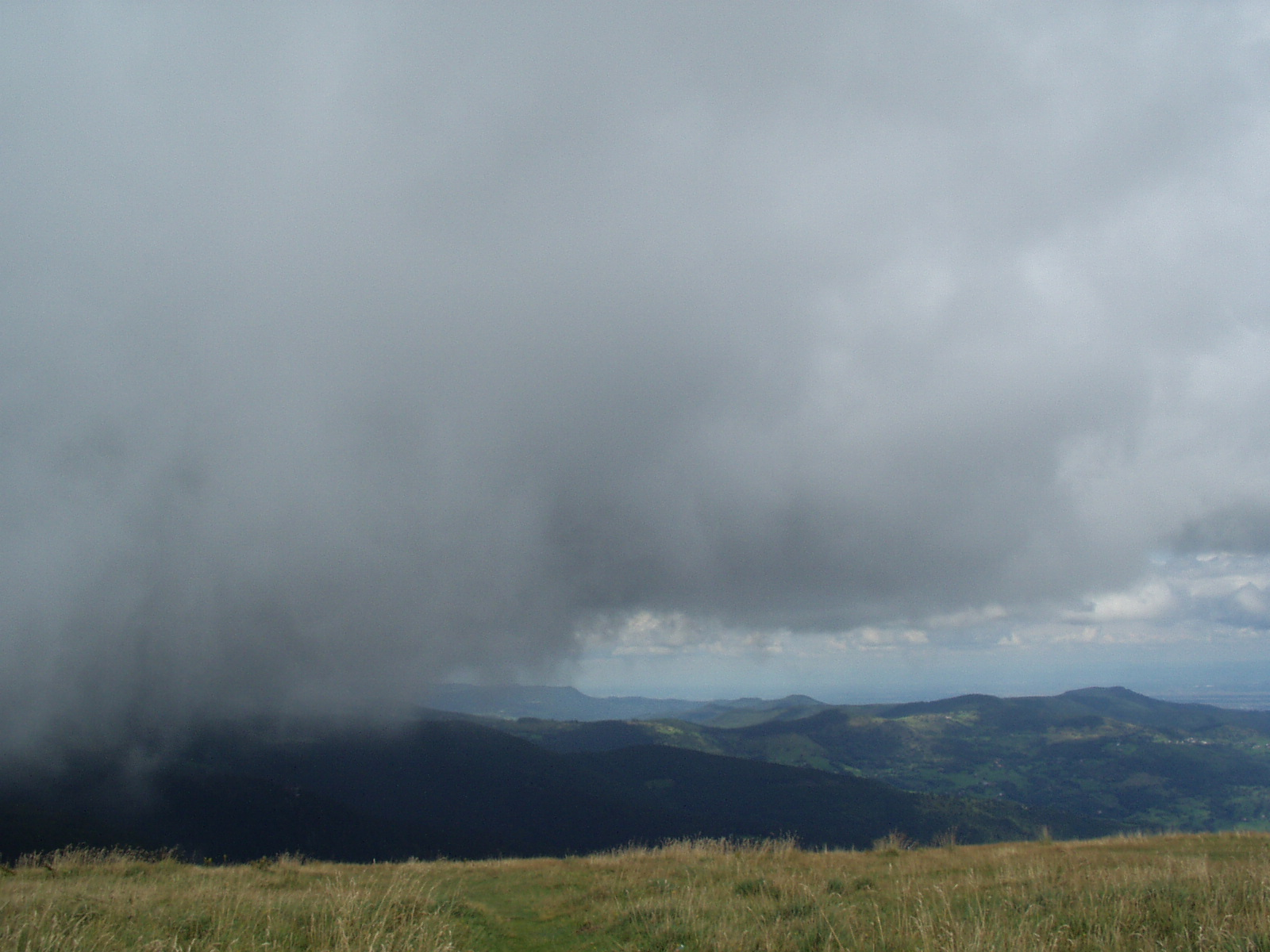 Description = Cloudy landscape in Vosges mountains Author = Philipp Hertzog